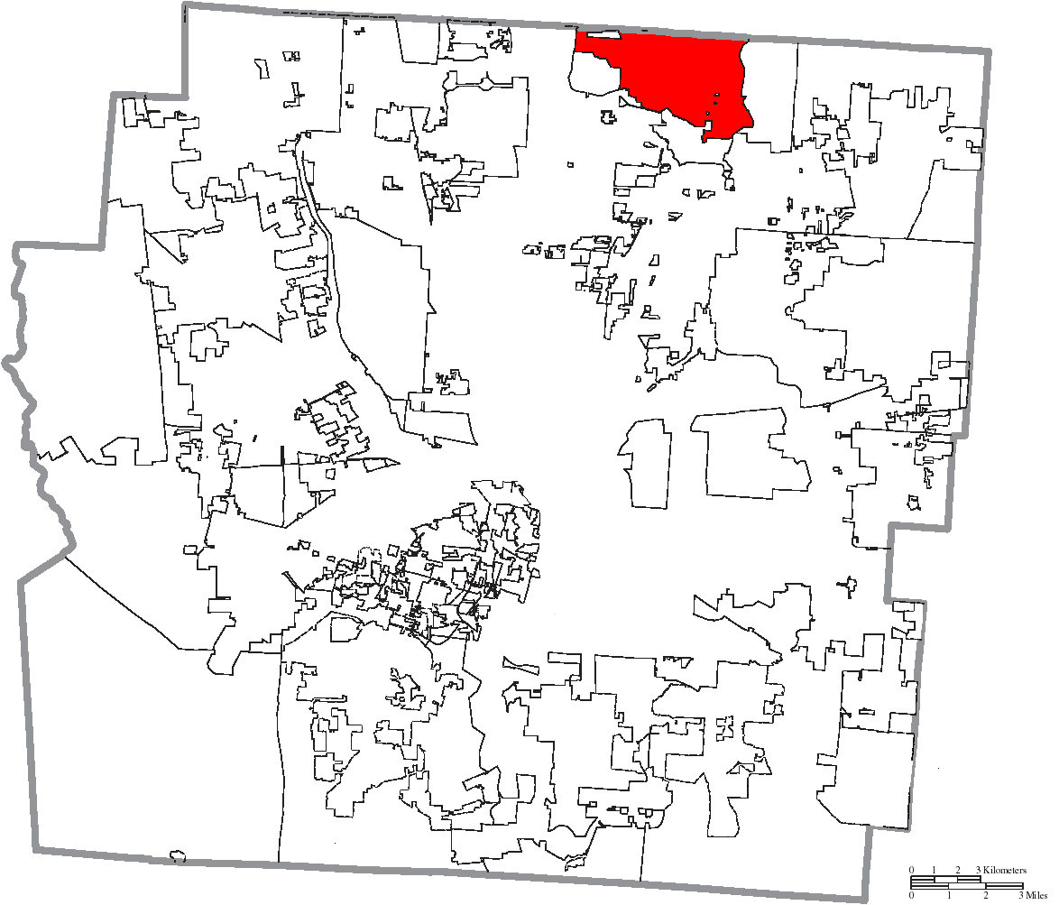 Map of the municipal and township boundaries of Franklin County, Ohio, United States, as of the 2000 census, with the location of the city of Westerville highlighted. Township borders are shown only in unincorporated areas in order to differentiate incorporated and unincorporated areas more clearly. Due to the extremely fractured nature of the county's municipal boundaries, details of boundaries and the identity of township islands may be inaccurate.